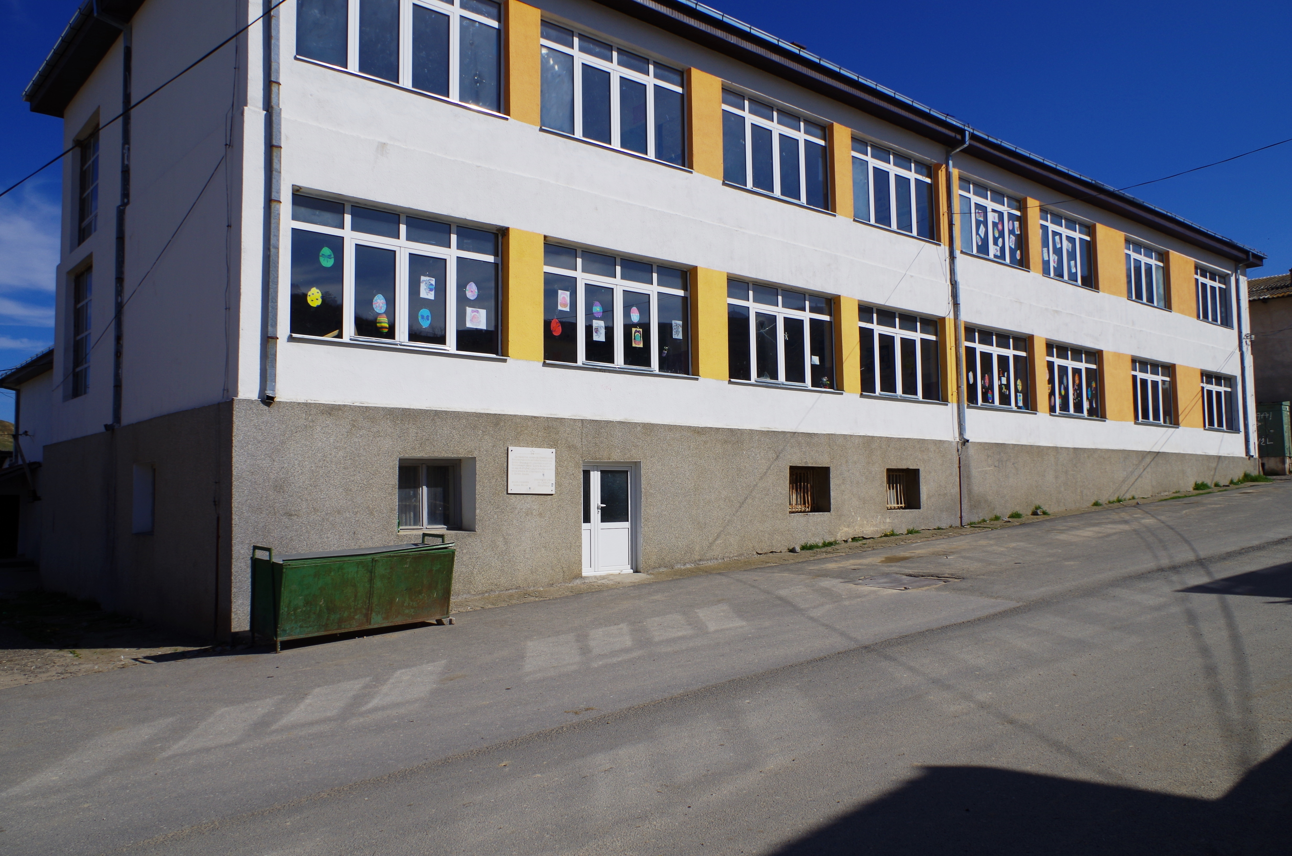 Primary school in the village Dolni Disan